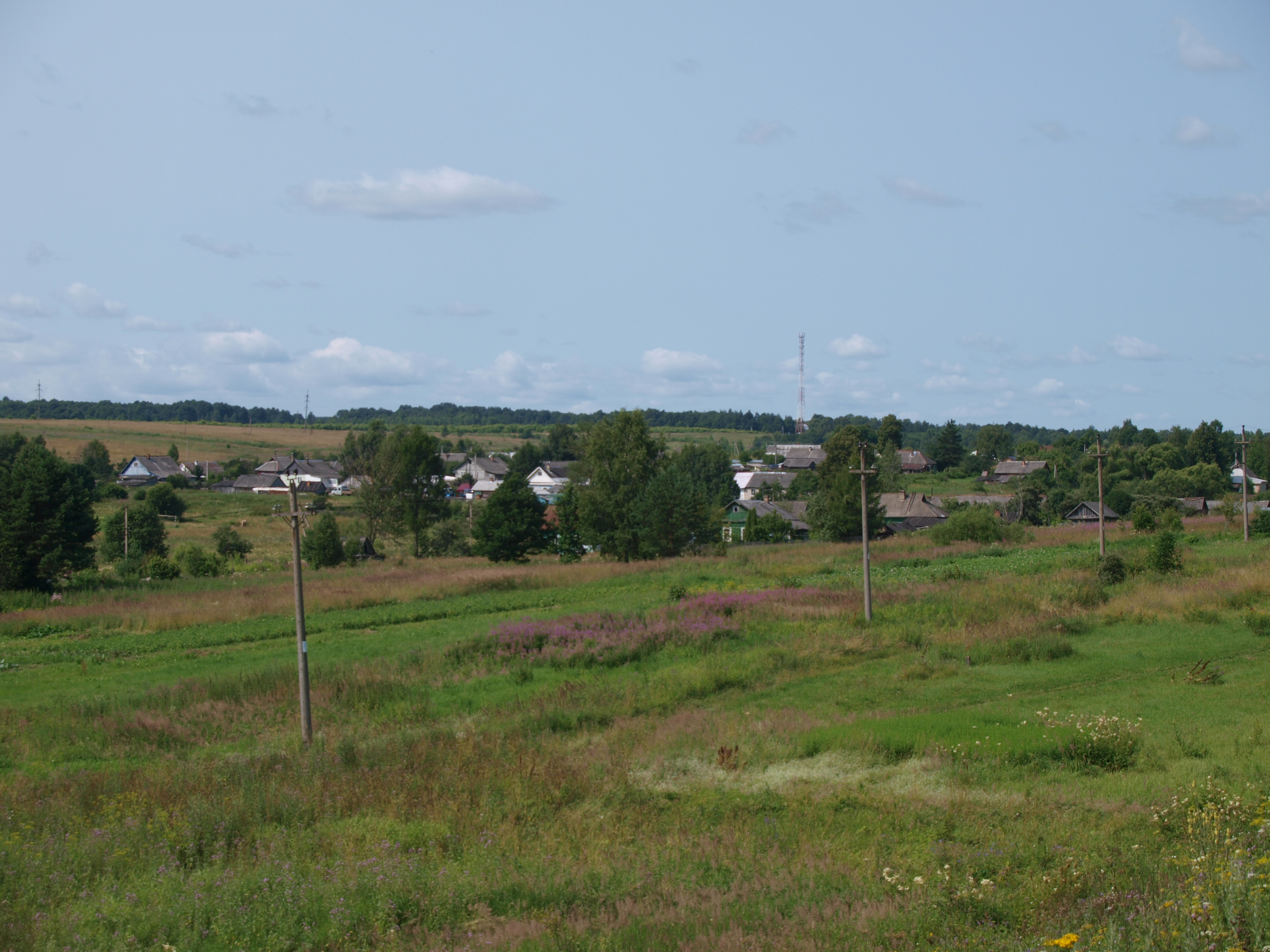 Cheremuski Village, Smolensk oblast, Russia